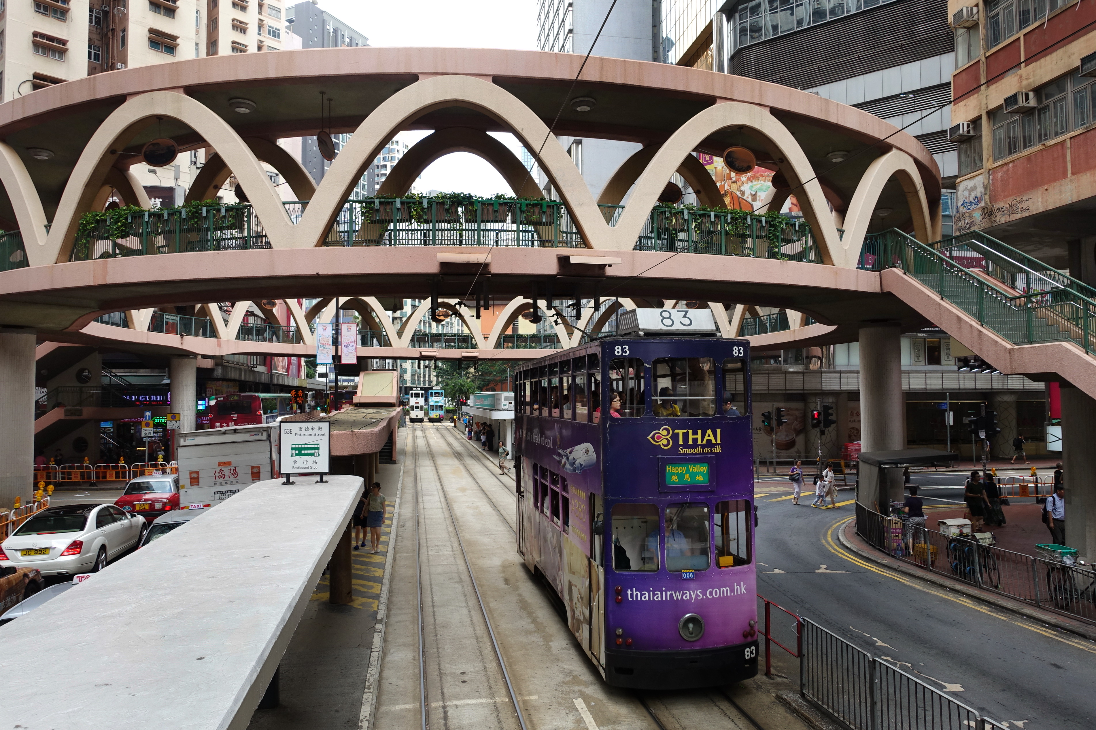 Hong Kong Tramways, Paterson Street, Eastbound stop, Causeway Bay, Hong Kong.